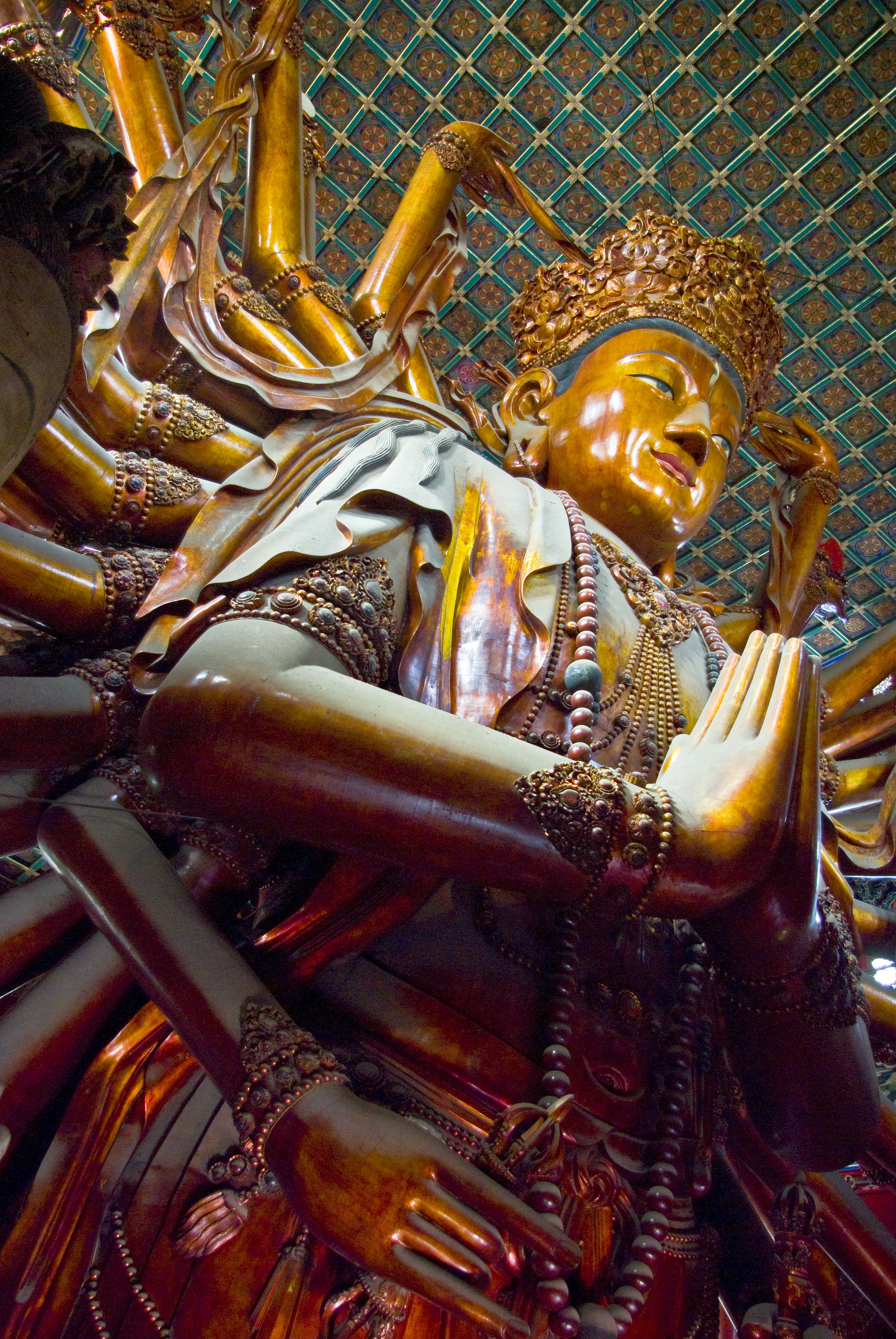 Big wooden Budhisattva statue in Puning Temple of Chengde, China, built in the 18th century.